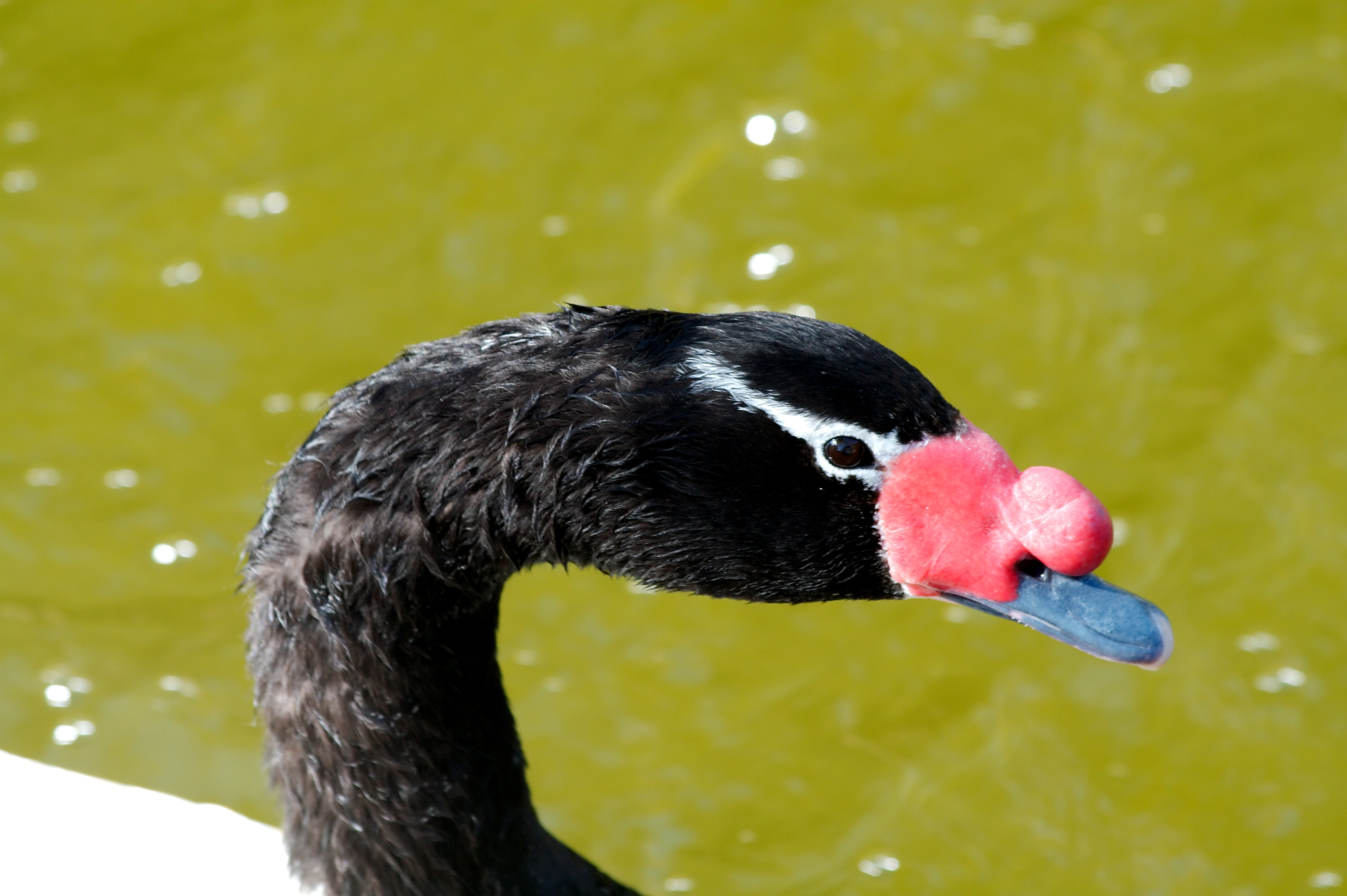 A black-necked swan (Cygnus melancoryphus), taken at the Santa Barbara Zoo, California